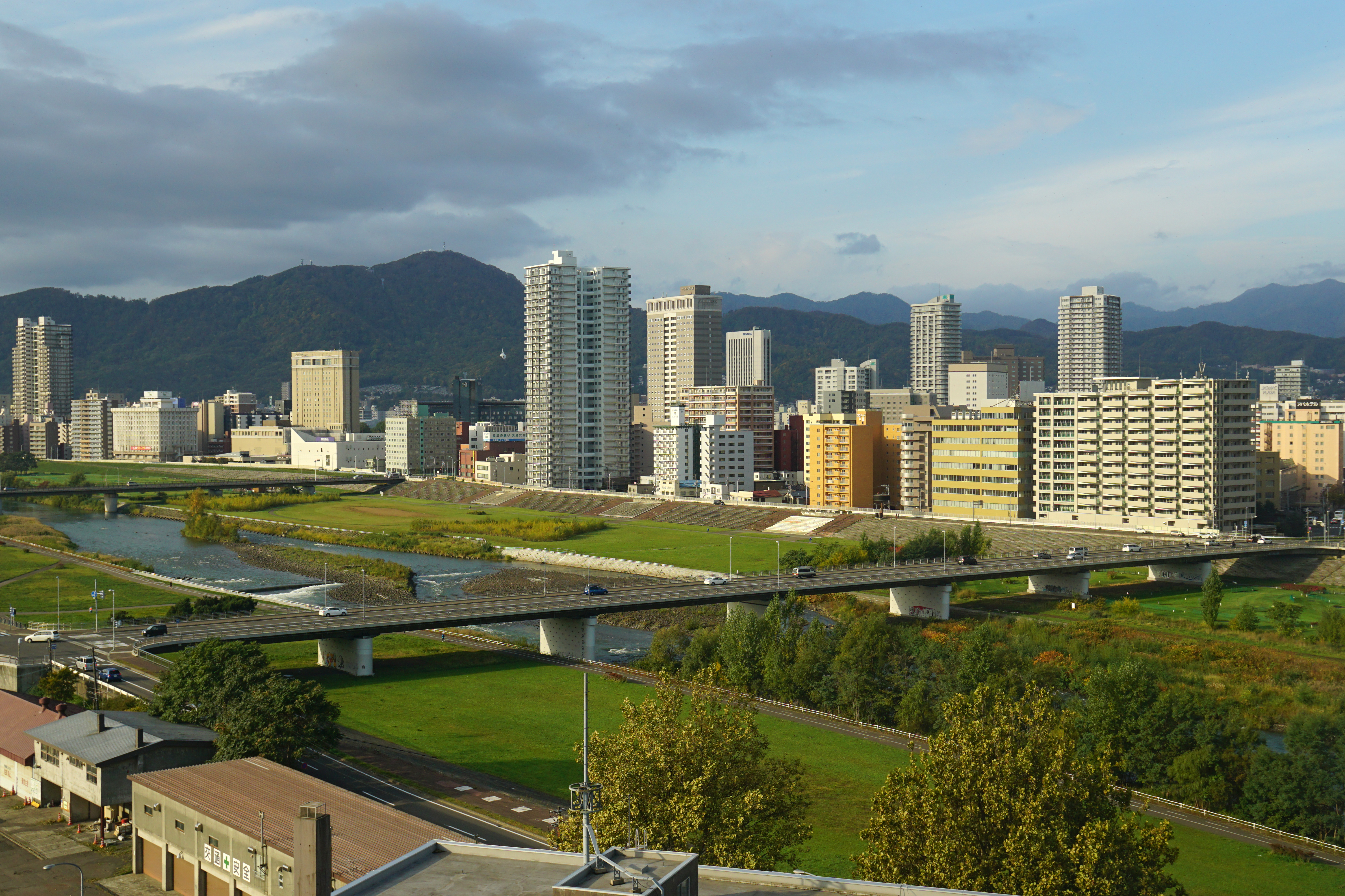 A view from Premier Hotel-TSUBAKI-Sapporo in Sapporo, Hokkaido prefecture, Japan.